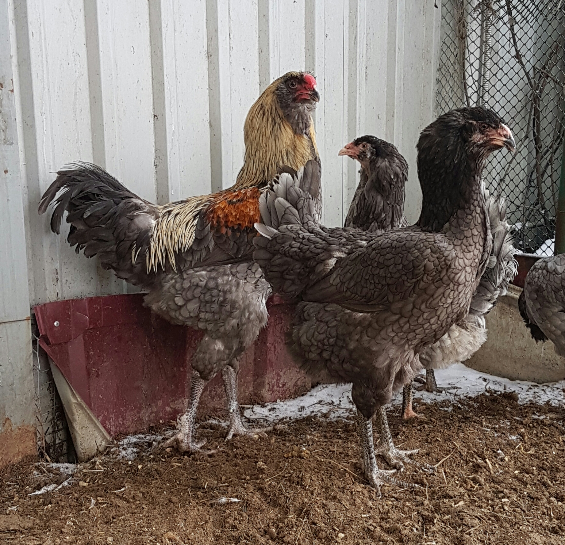 Gilyan breed Korolev Alexander